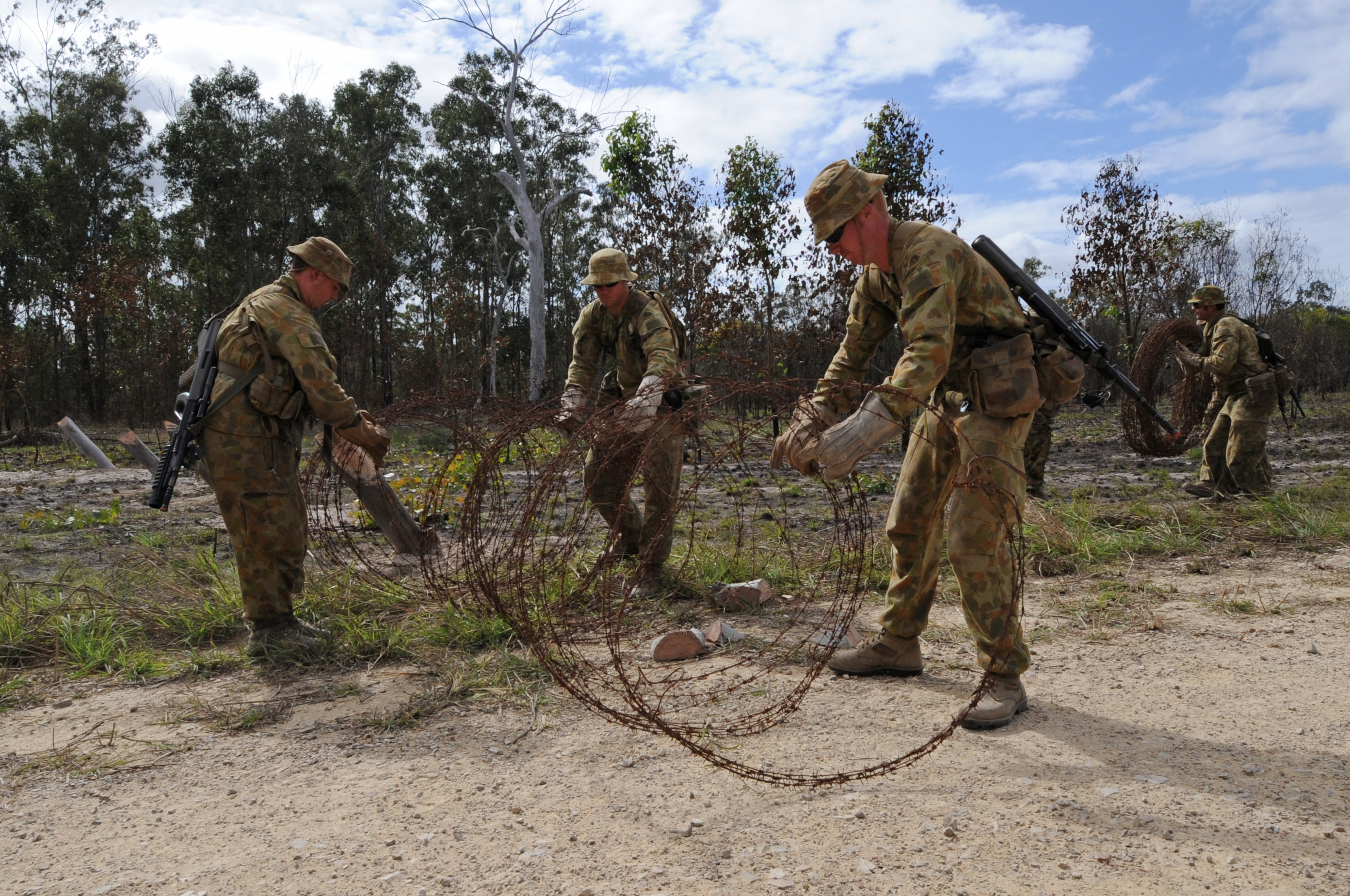 Australian army soldiers from the 1st Combat Engineer Regiment lay barbed wire during Exercise Talisman Sabre 2009 in Queensland, Australia, July 9, 2009. Talisman Sabre is a biennial combined training activity designed to train Australian and United States forces in planning and conducting combined task force operations. VIRIN: 090709-M-2064S-073